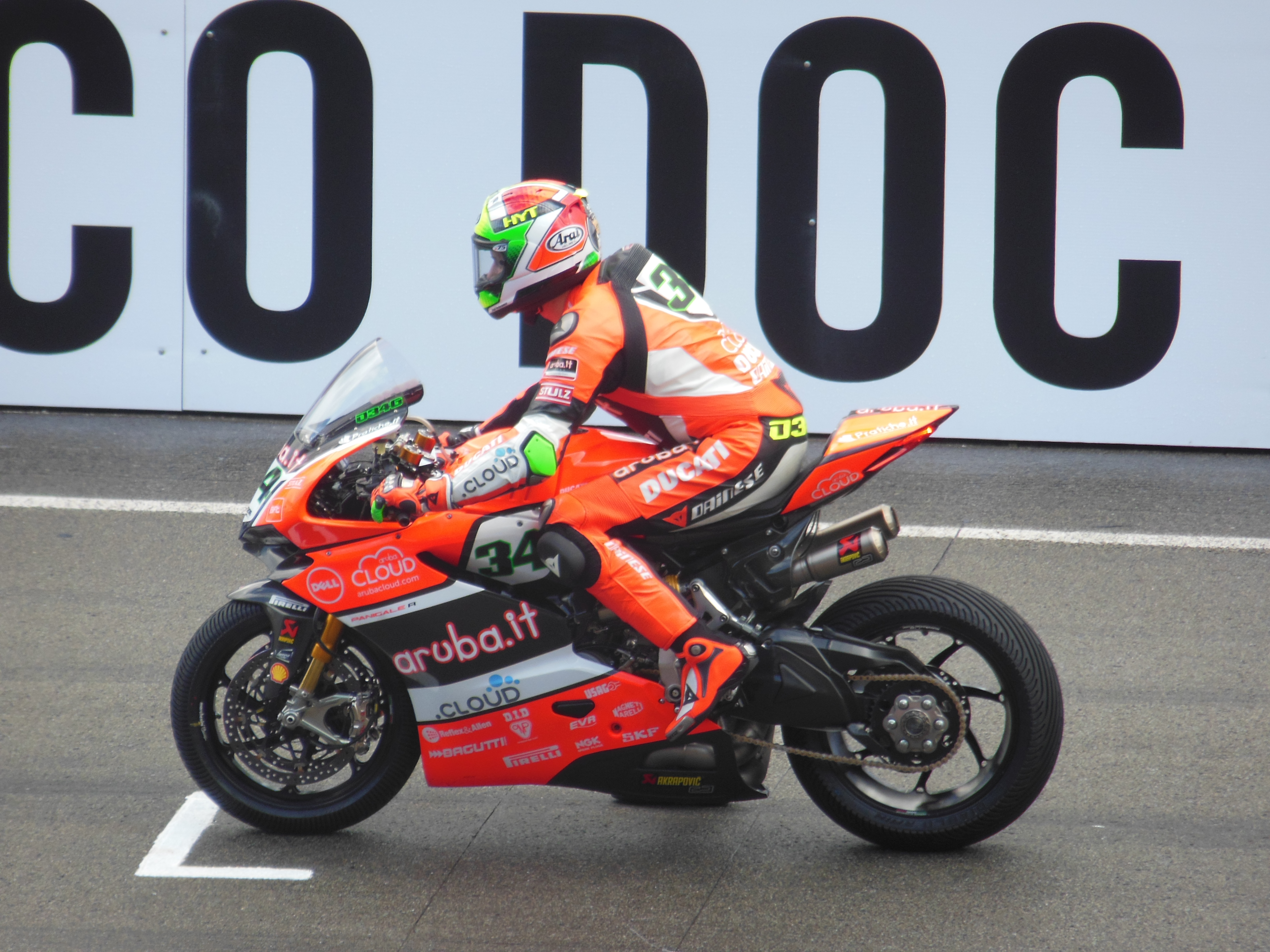 Italian motorcycle racer Davide Giugliano on Ducati 1199 Panigale of Aruba.it Racing - Ducati Superbike Team.